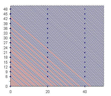 Graphical solution of the Chicken McNuggets problem.